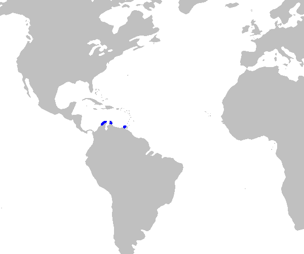 Distribution map for Mustelus minicanis